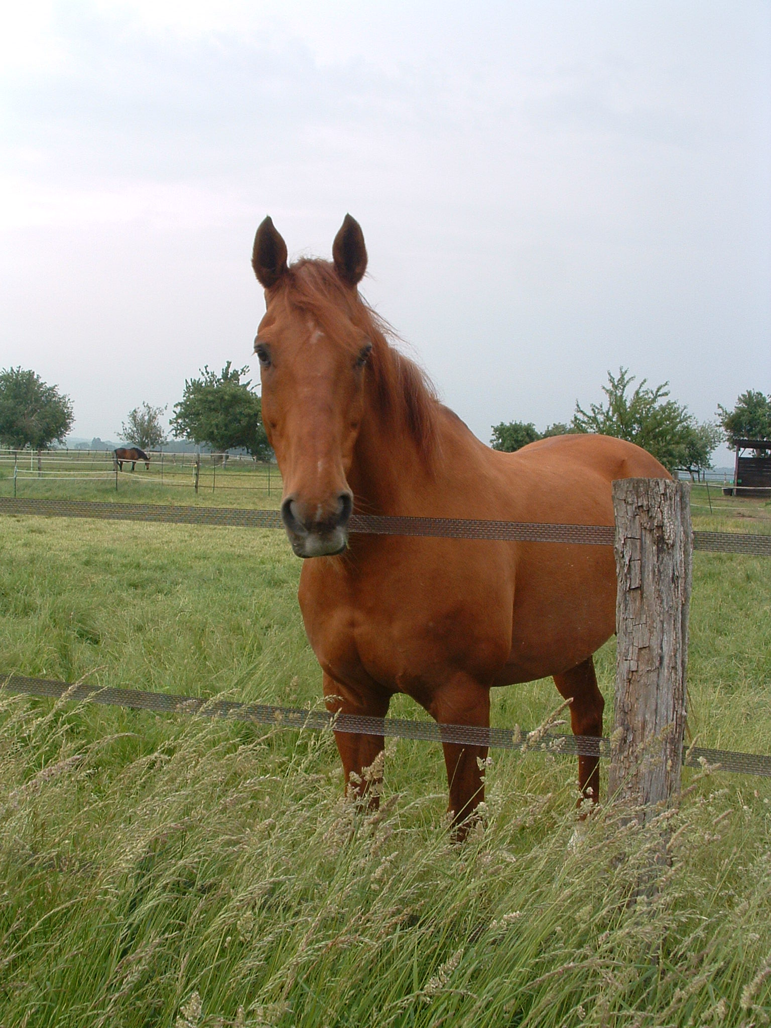 Gelding selle français horse in his field, Seine-et-Marne, France